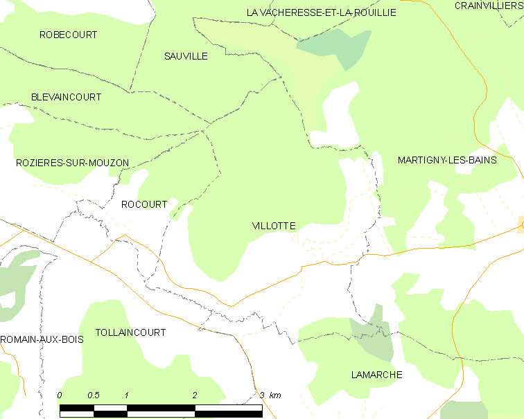 Map of French municipality Villotte